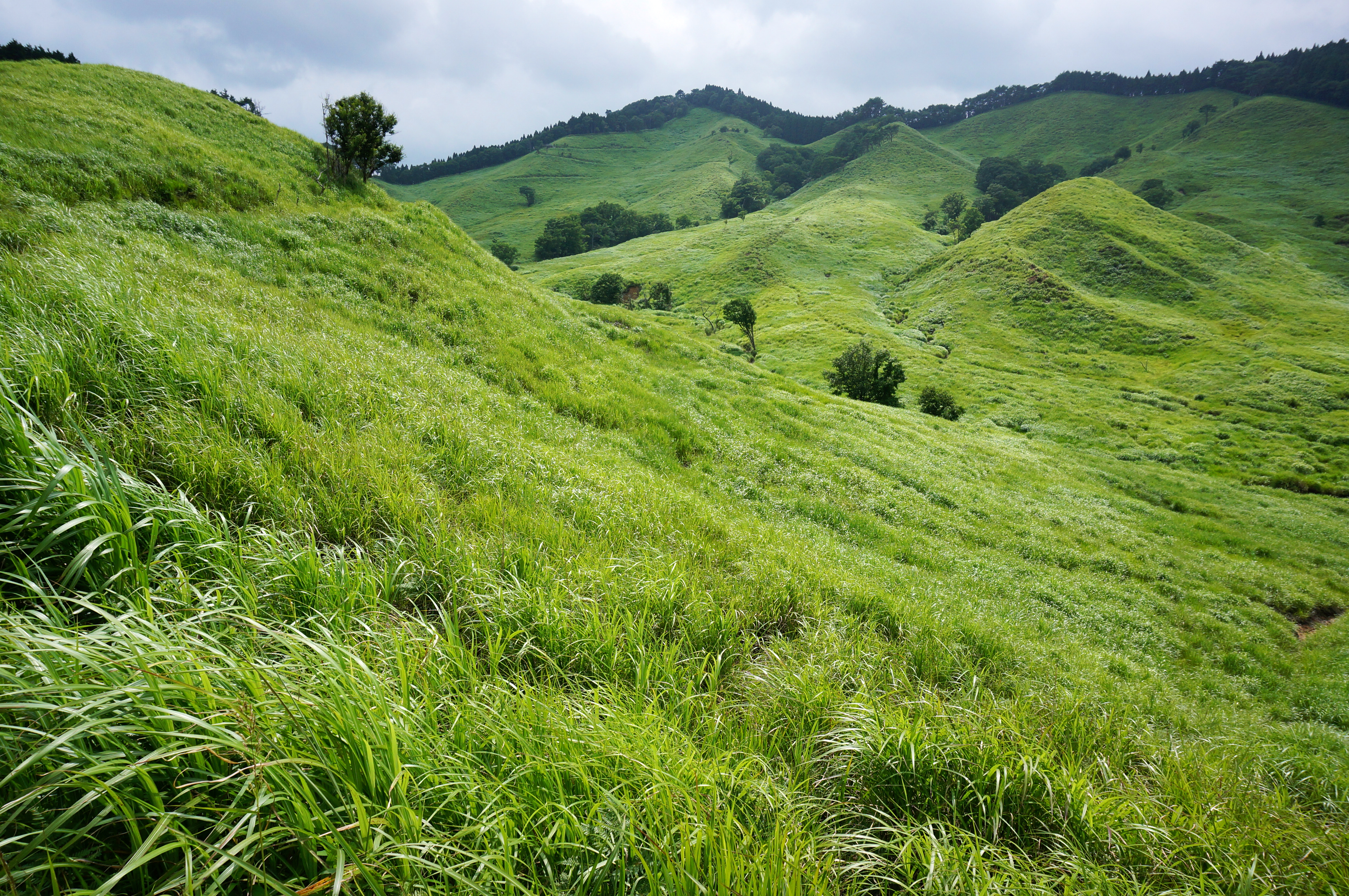 Tonomine highlands in Kamikawa, Hyogo prefecture, Japan.